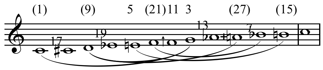 Suite for Microtonal Piano microtonal tuning arranged in a chromatic scale. Harmonics indicated by notation or above the staff, just perfect fifths marked with slurs. Created by Hyacinth (talk) 14:25, 17 January 2012 (UTC) using Sibelius 5.